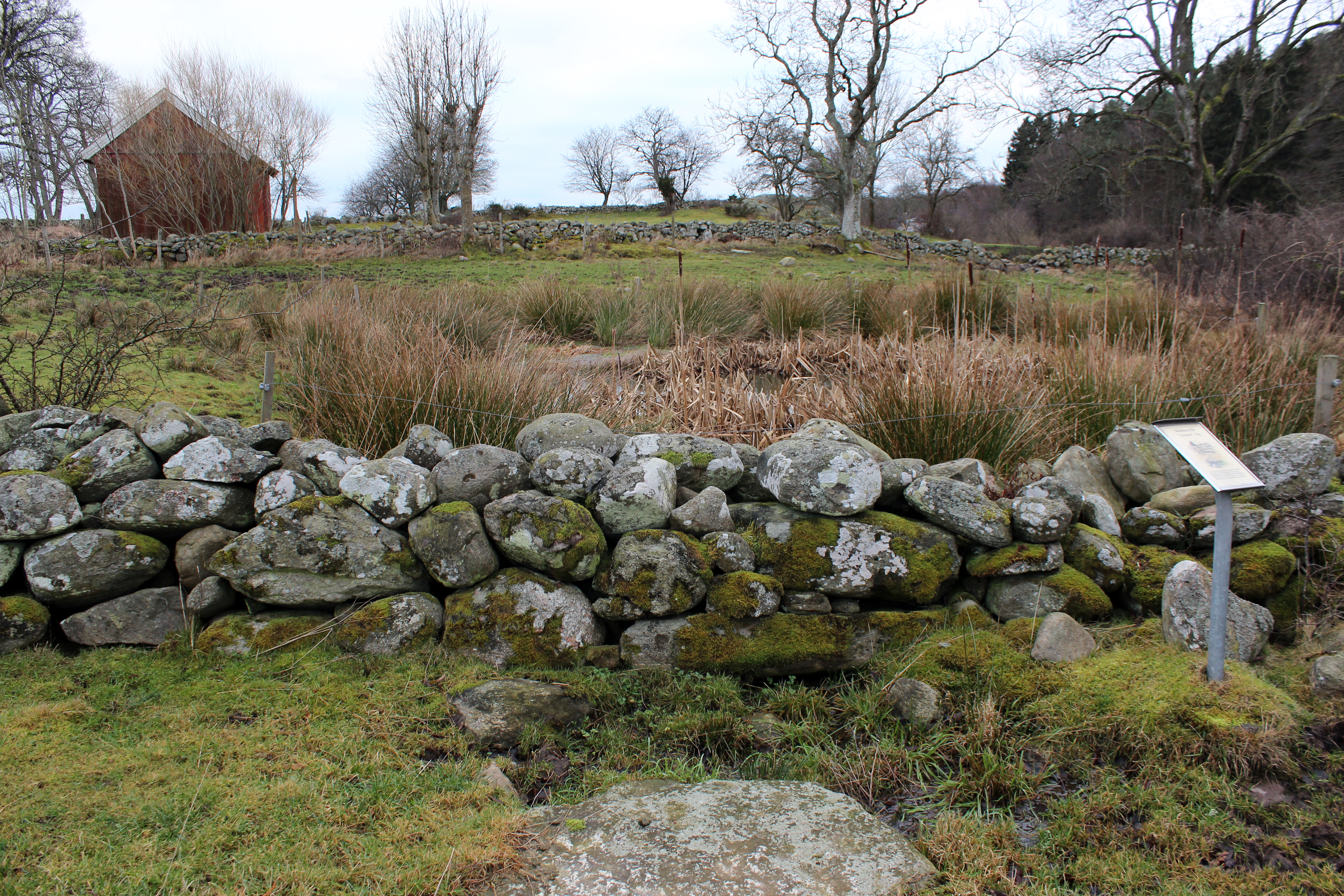 Mårtagården in Onsala, Halland, Sweden.